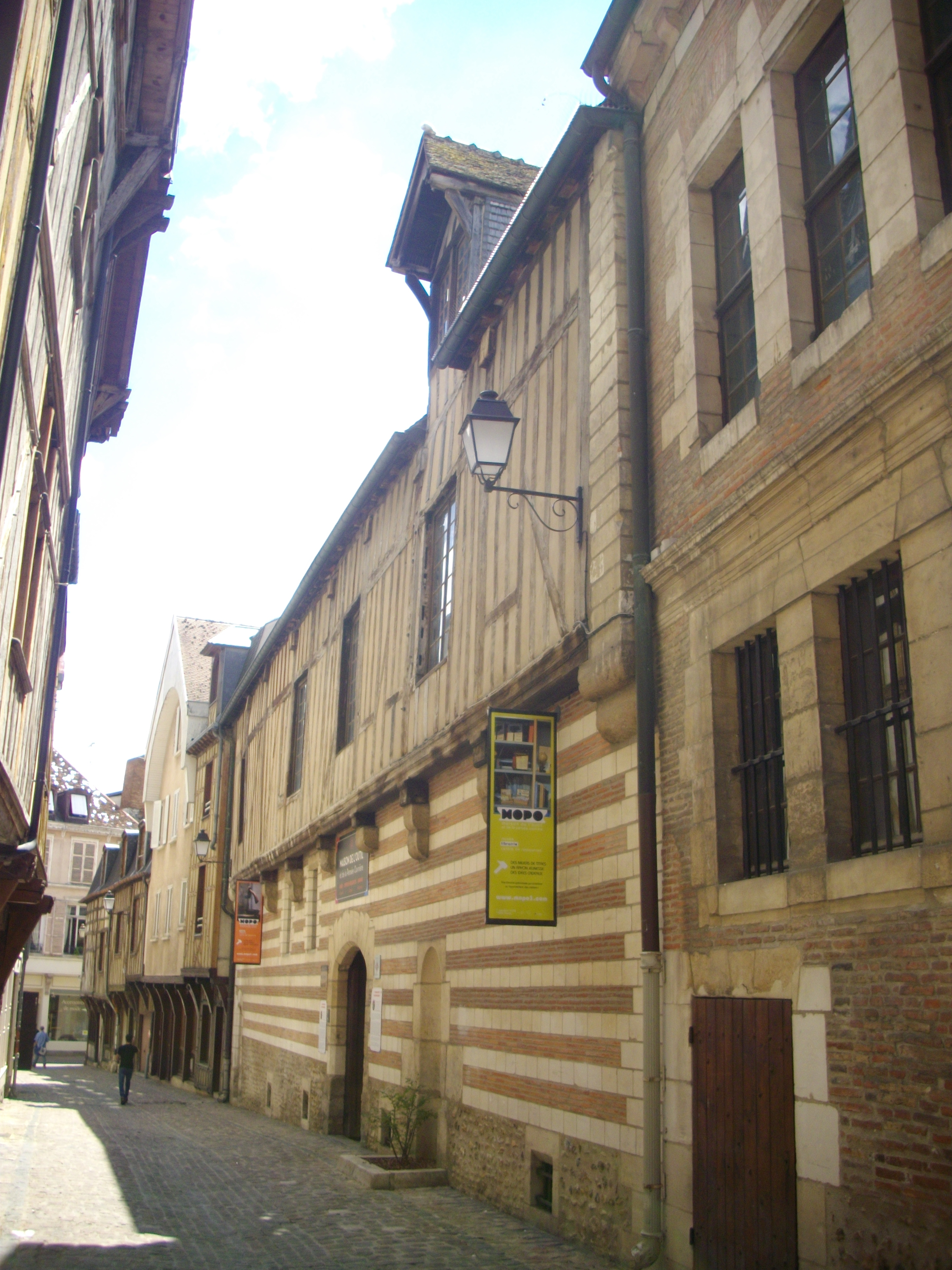 House of tool and worker mind, in Troyes (Aube, France) : facade on Larivey street .